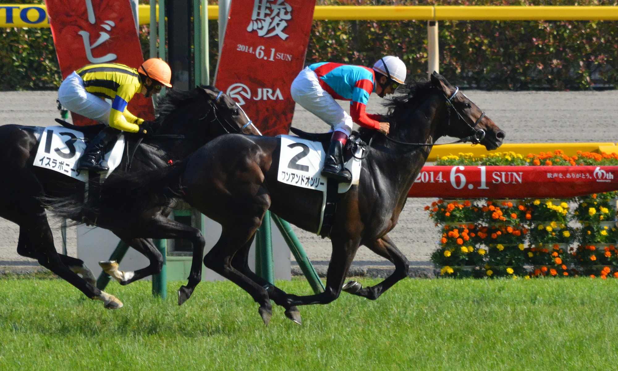 Japanese race horse One And Only at Tokyo racecourse. Tokyo (JPN) 01 Jun 2014 Tokyo Yushun (Japanese Derby) (Grade 1) (3yo Colts & Fillies) (Turf) 1m4f Firm RankHorse NameOddsAgeWgtTrainerJockey1stOne And Only (JPN)23/5C39-0Kojiro HashiguchiNorihiro Yokoyama2ndIsla Bonita (JPN)17/10FC39-0Hironori KuritaMasayoshi Ebina3rdMeiner Frost (JPN)107/1C39-0Noboru TakagiMasami Matsuoka4th - 17th/omission